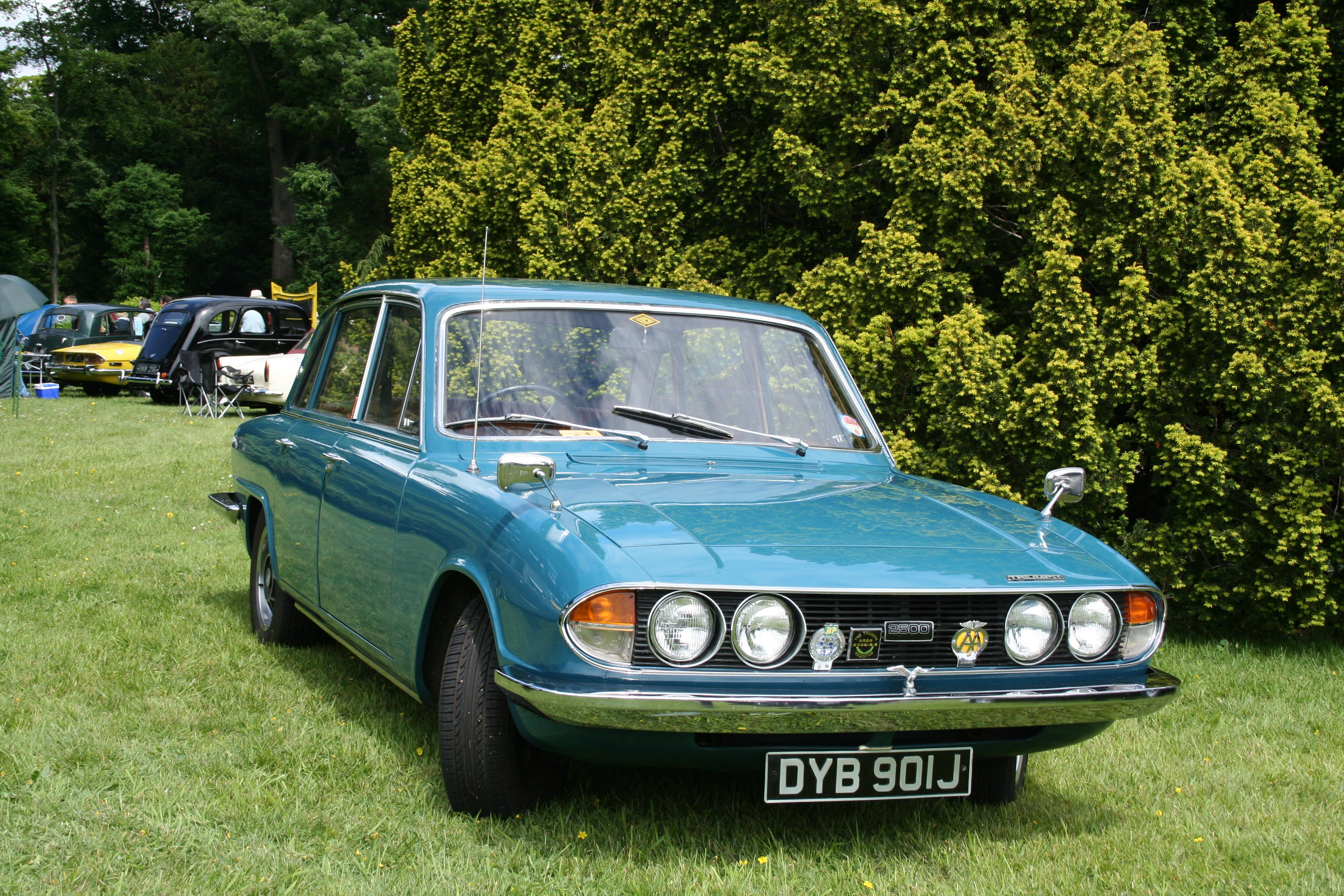 1971 Triumph 2500, shown at "Classic Cars for Father's Day" at Brodsworth Hall, near Doncaster